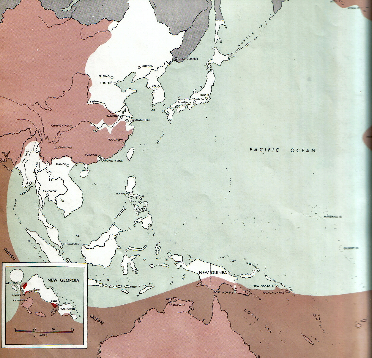 Map of the front against Japan as of 1 Aug 1943: This map is taken from the source "Atlas of the World Battle Fronts in Semimonthly Phases to August 15th 1945: Supplement to The Biennial report of The Chief of Staff of the United States Army July 1, 1943 to June 30 1945 To the Secretary of War". (See Cover, Forward and Map details)